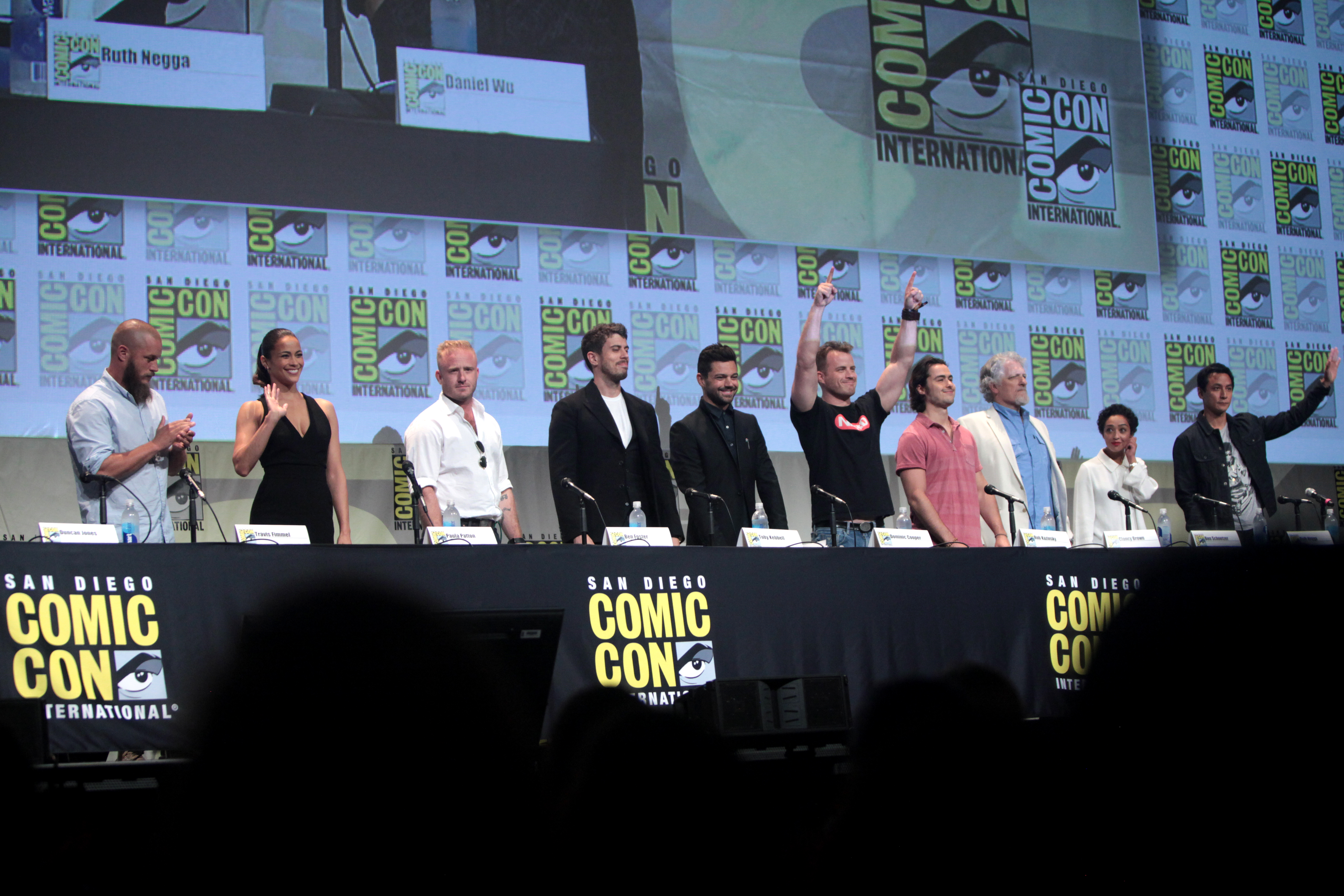 Travis Fimmel, Paula Patton, Ben Foster, Toby Kebbell, Dominic Cooper, Rob Kazinsky, Ben Schnetzer, Clancy Brown, Ruth Negga and Daniel Wu speaking at the 2015 San Diego Comic Con International, for "Warcraft", at the San Diego Convention Center in San Diego, California.